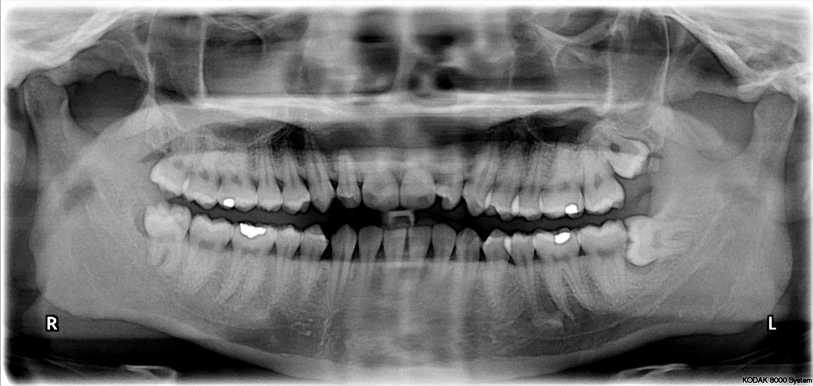 The upper left (picture right) and upper right (picture left) wisdom tooth are distoangularly impacted. The lower left wisdom tooth is horizontally impacted. The lower right wisdom tooth is vertically impacted (unidentifiable in X-ray image). The glowing parts in the teeth are cavities filled with amalgam.